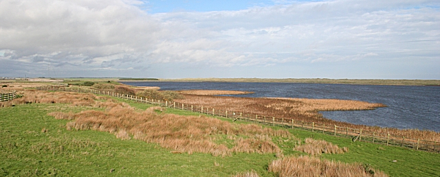 From the Bank Hide The Bank Hide provides an extensive view over the eastern part of the Loch of Strathbeg. Today there were a Red-Throated Diver and a Slavonian Grebe.